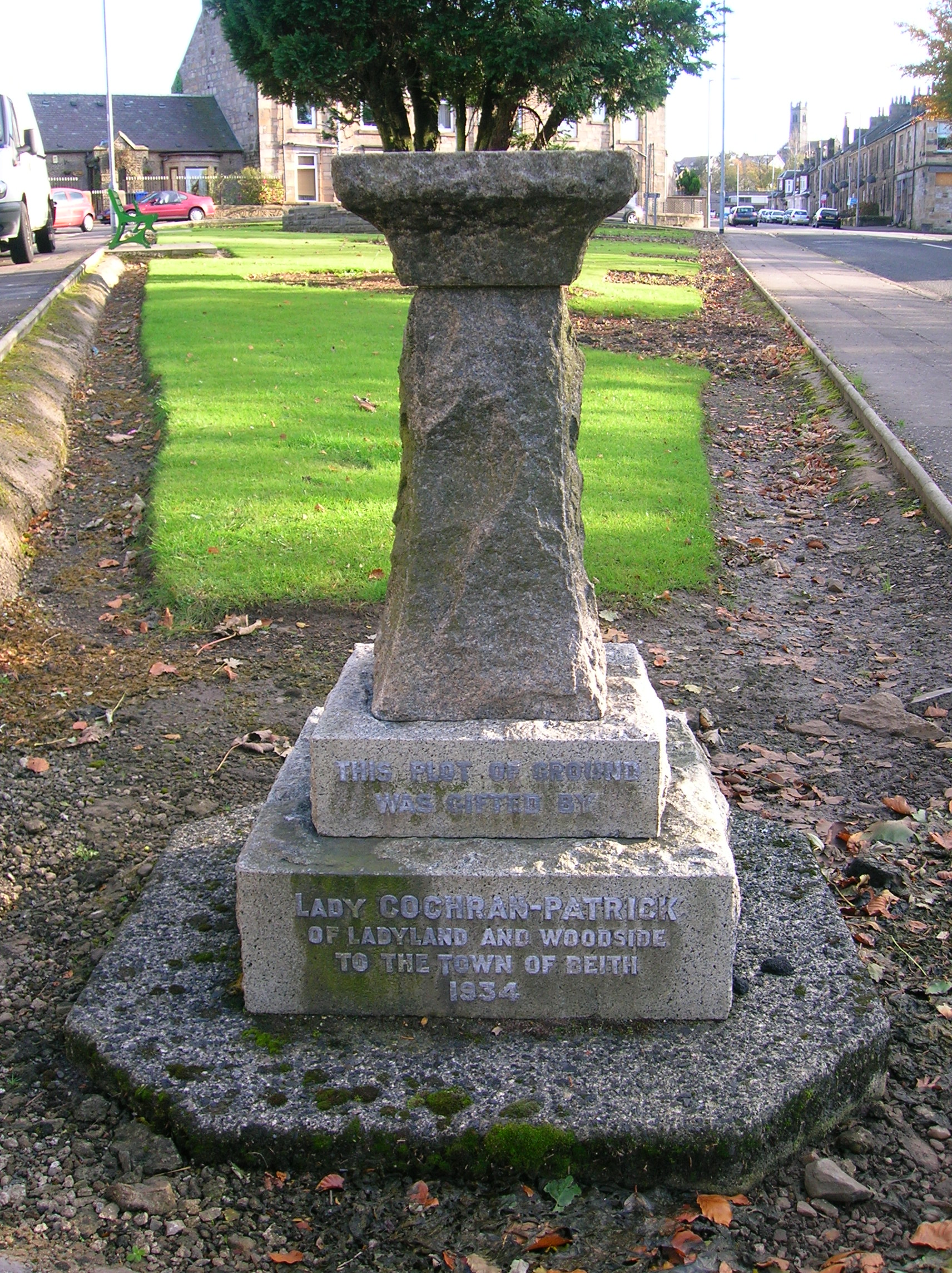 Sundial recording the donation of this plot of land in Beith by Lady Cochran-Patrick of Ladyland and Woodside.